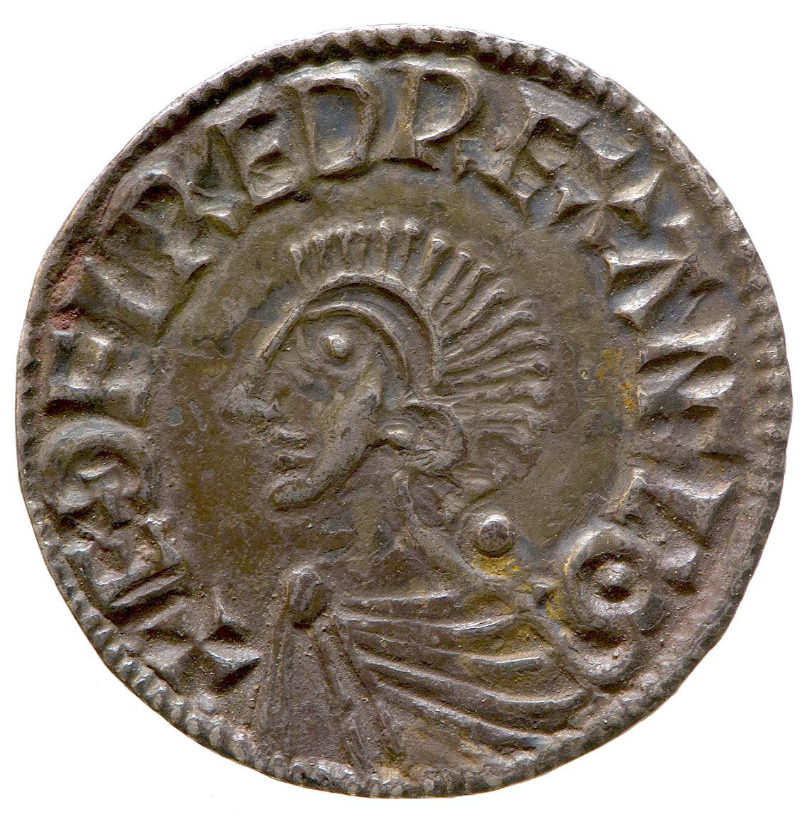 Obverse (front) of a silver penny of w: Æthelred_the_Unready Head facing left